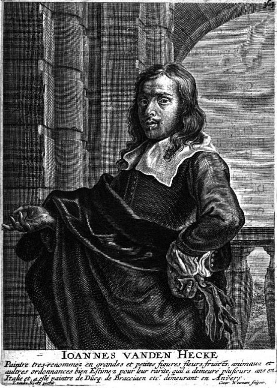 Portrait of Jan van den Hecke in Cornelis de Bie's Gulden Cabinet.